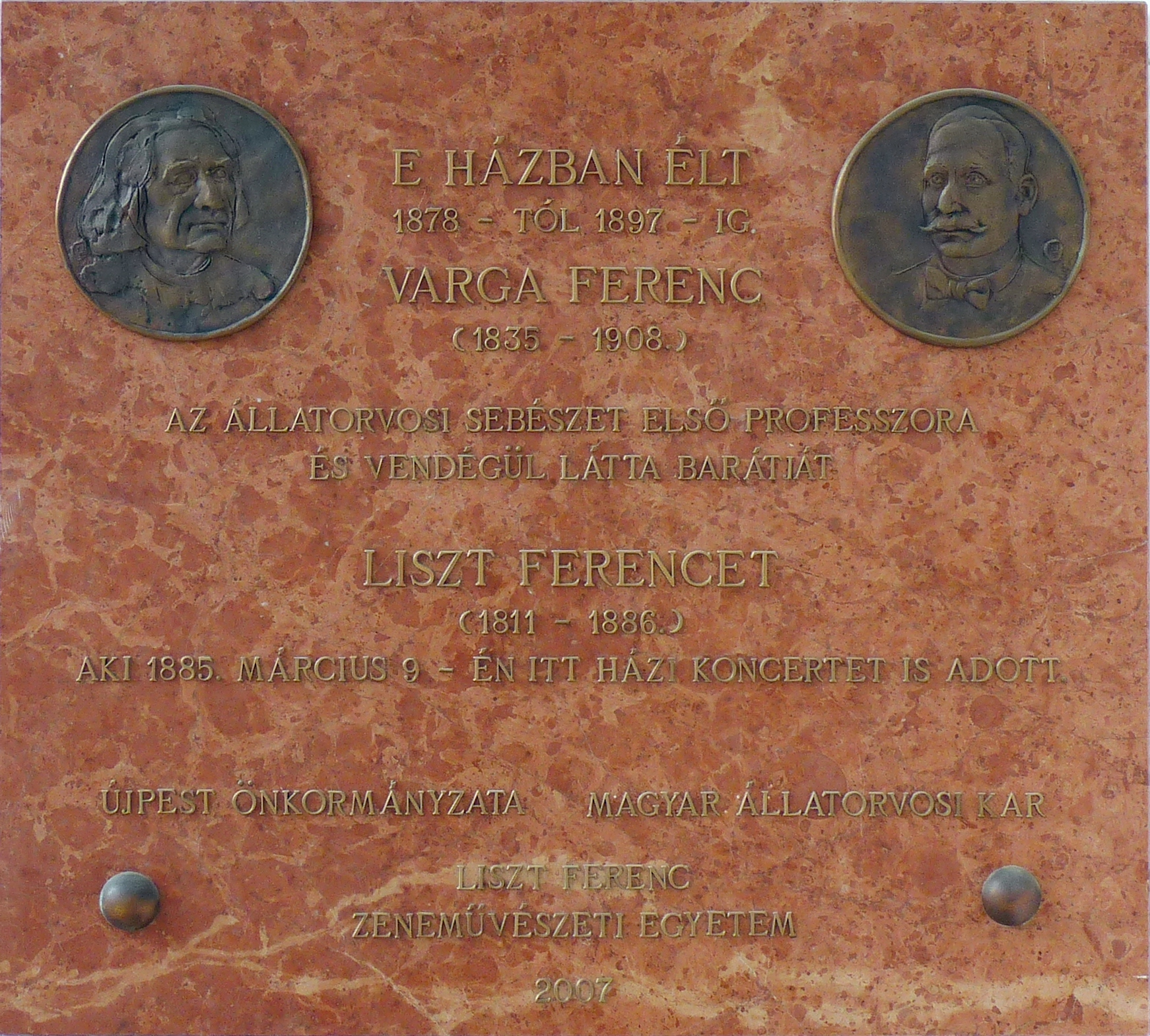 Commemorative plaque to Mr. Franz Liszt (1811-1886) Hungarian pianist and composer, placed on the wall of a villa in Újpest (Hungary) where he gave a short concert while visiting his friend Mr Ferenc Varga dr., veterinary surgeon. Authors of the bronz reliefs: Károly and Edit Nagy. Inauguration: September 2, 2007. (Budapest, District IV, Vécsey Károly Street Nr 120).